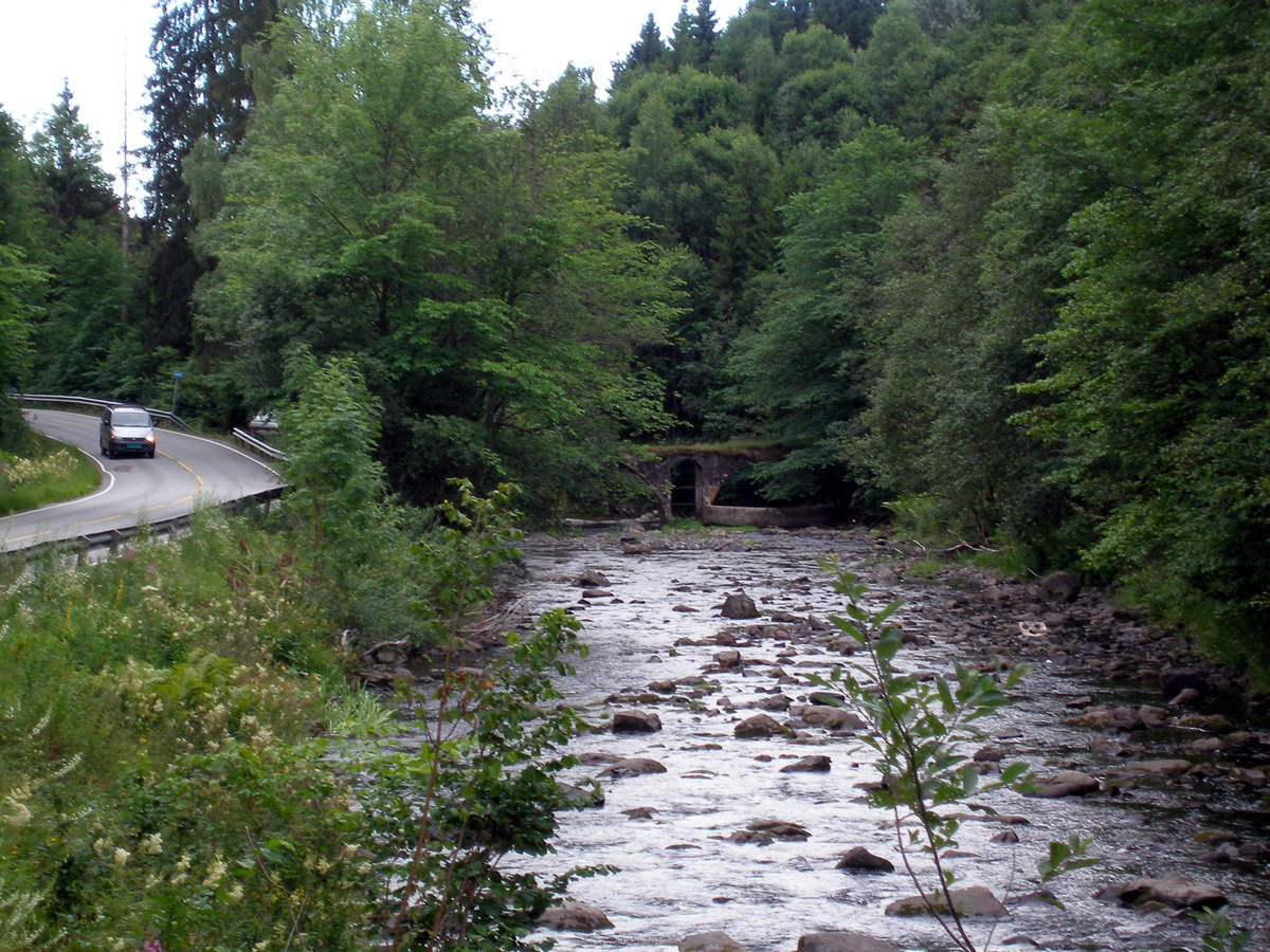 Åroselva, Åros, Norway